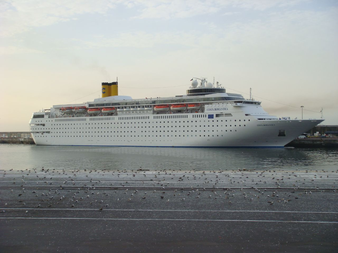 Costa Romantica docked in Funchal